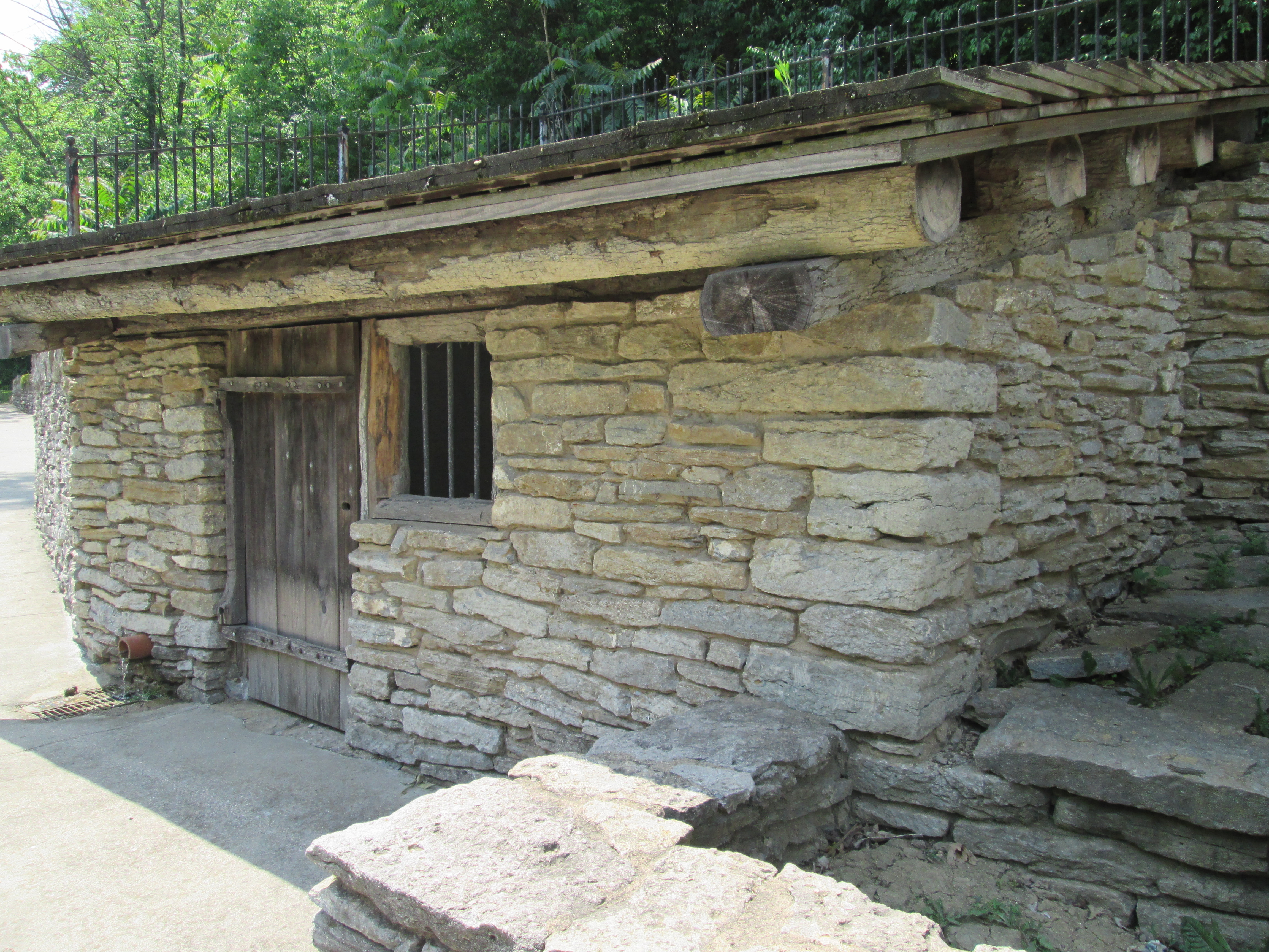 The Delhi Springhouse, formerly called the Sedam Springhouse, is located in Delhi Township, Hamilton County, Ohio